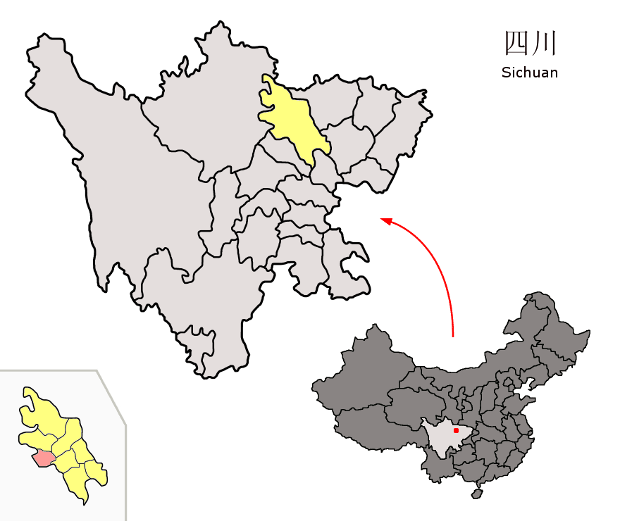 Location of An County (pink) and Mianyang Prefecture (yellow) within Sichuan province of China Map drawn in october 2007 using various sources, mainly : Sichuan province administrative regions GIS data: 1:1M, County level, 1990 Sichuan Counties map from